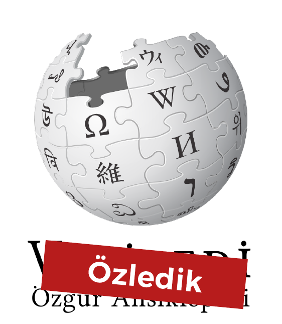 Wikipedia Turkish, It's wrote: We miss Wikipedia.